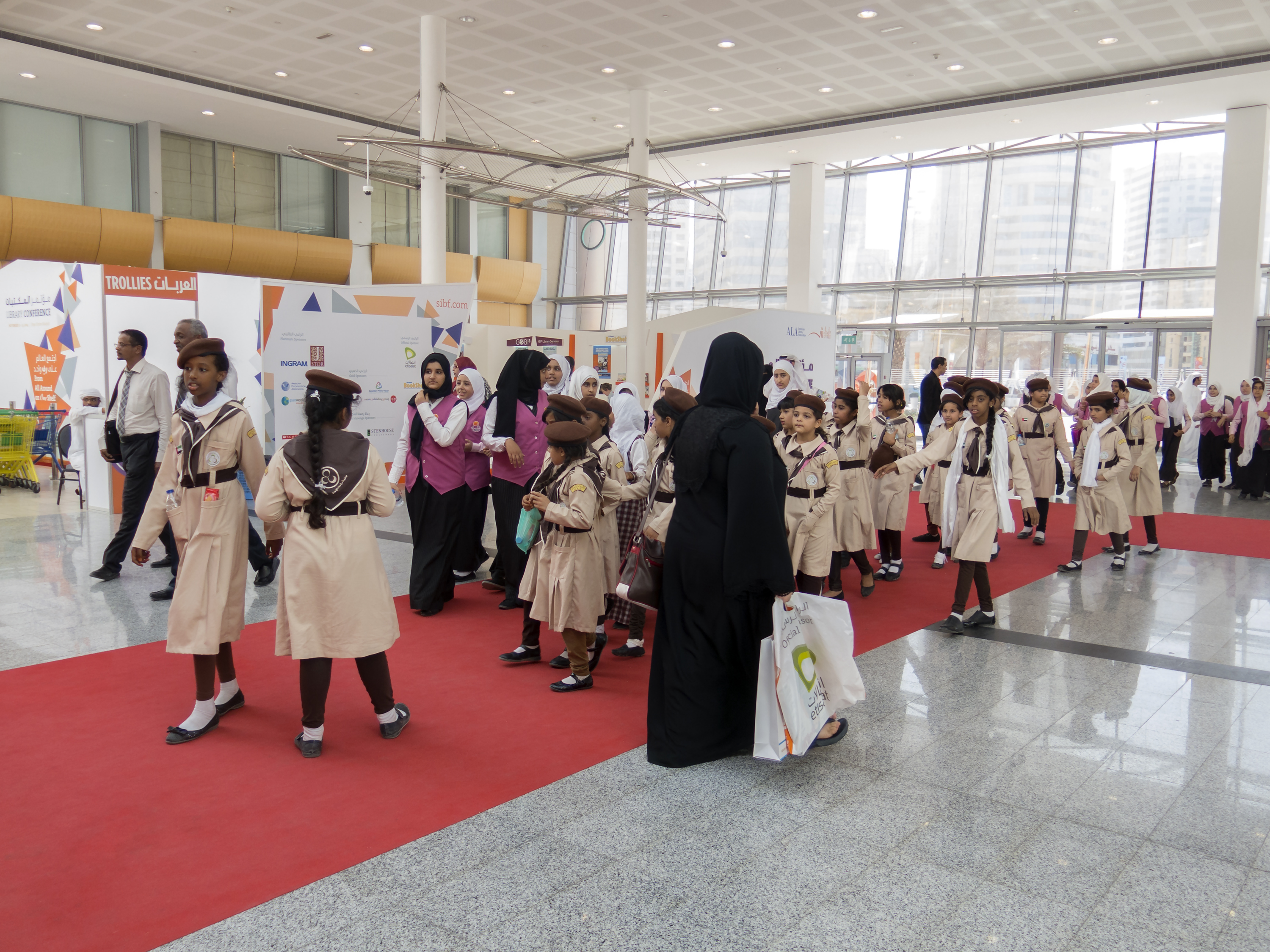 Sharjah International Book Fair is a ten-day event international book fair held annually in Sharjah, United Arab Emirates. The Sharjah International Book Fair started since 1982 under the continued guidance and patronage of His Highness Dr. Sheikh Sultan bin Muhammad Al-Qasimi, the UAE Supreme Council Member and Ruler of Sharjah. Since its inauguration in 1982, Sharjah Book Fair has become to be the 4th largest book fair in the world.